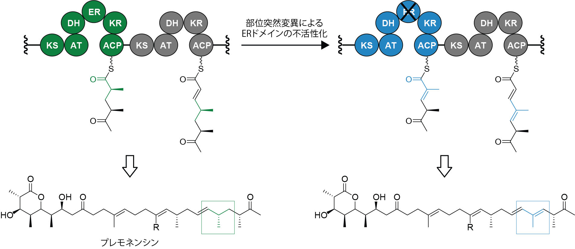 Example 6 of combinatorial biosynthesis (Japanese).